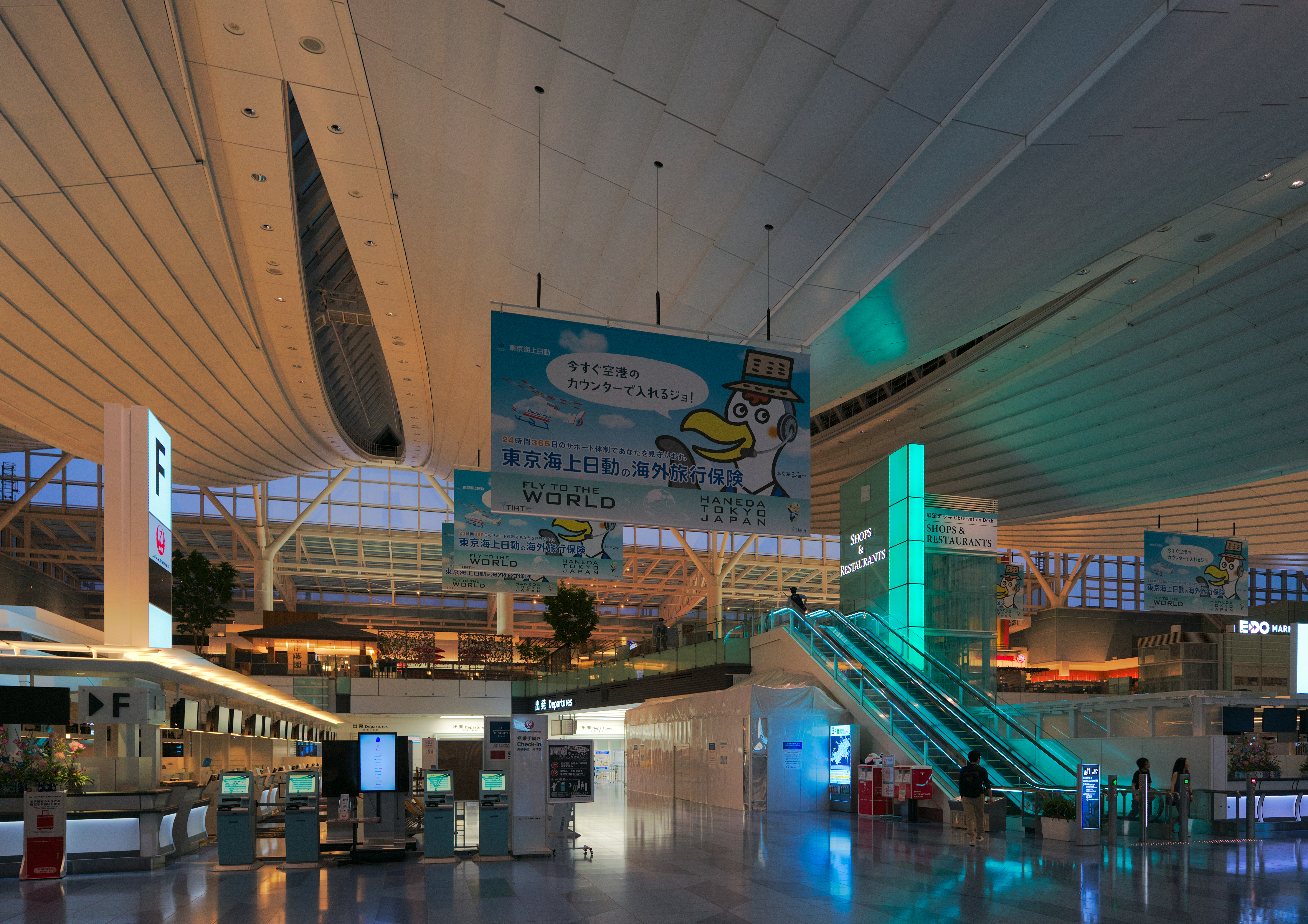 The international terminal of Haneda Airport opened on October 21, 2010.